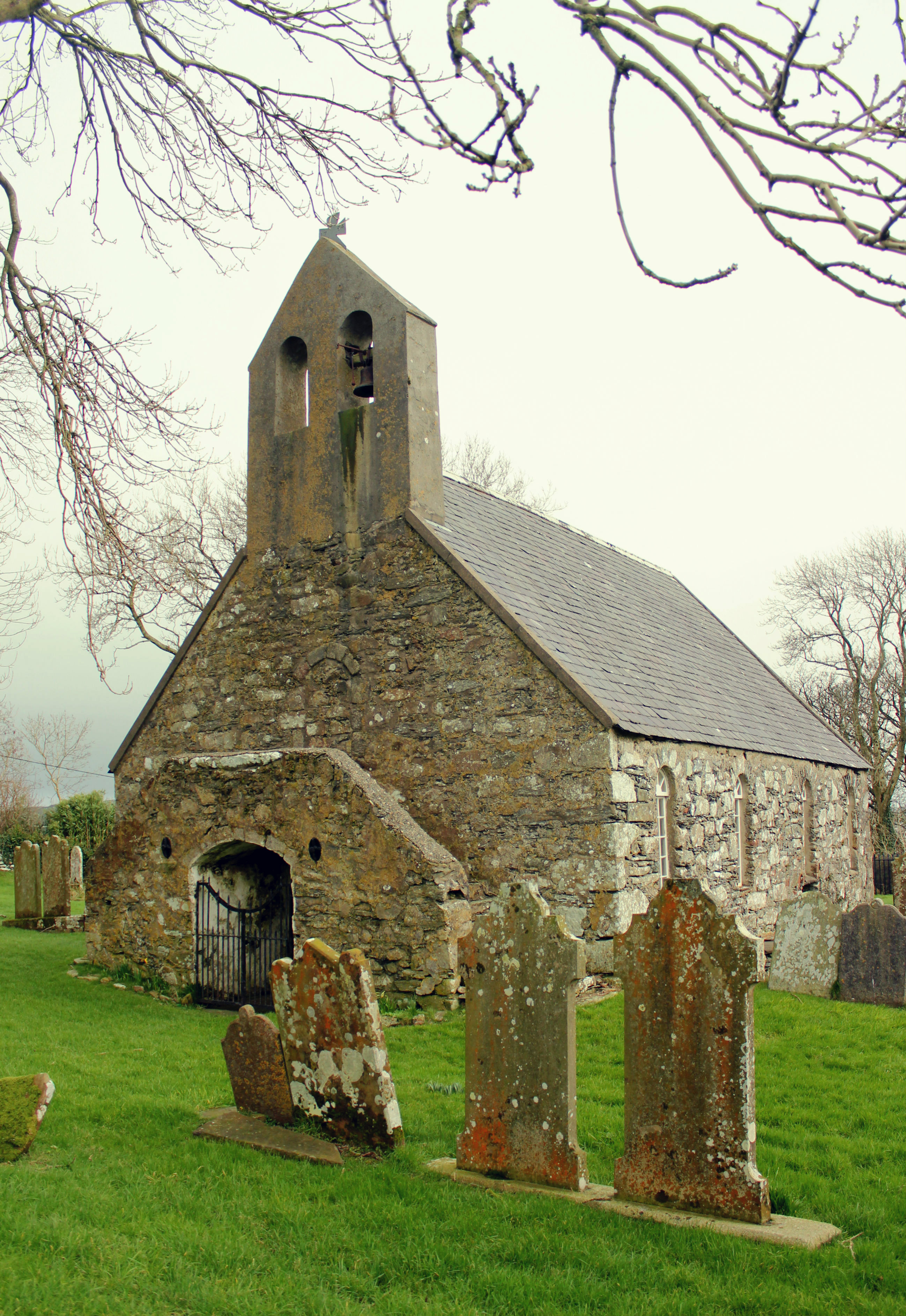 The old Parish Church of St. Runius, Marown, Isle of Man. Founded c. 1200, enlarged 1754.